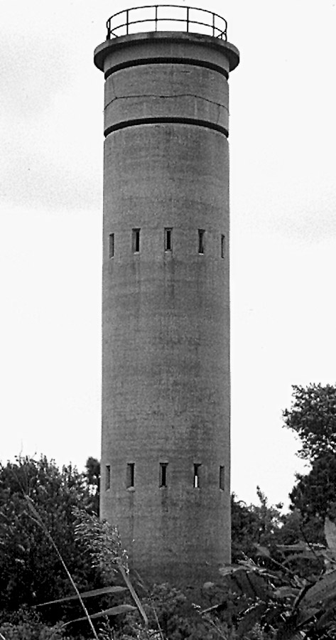 This is one of the distinctive round fire control towers that housed base end stations for Ft. Miles, now a part of Cape Henlopen State Park in Lewes, DE. Photo courtesy of the Coast Defense Study Group, McLean, VA, from their collection.